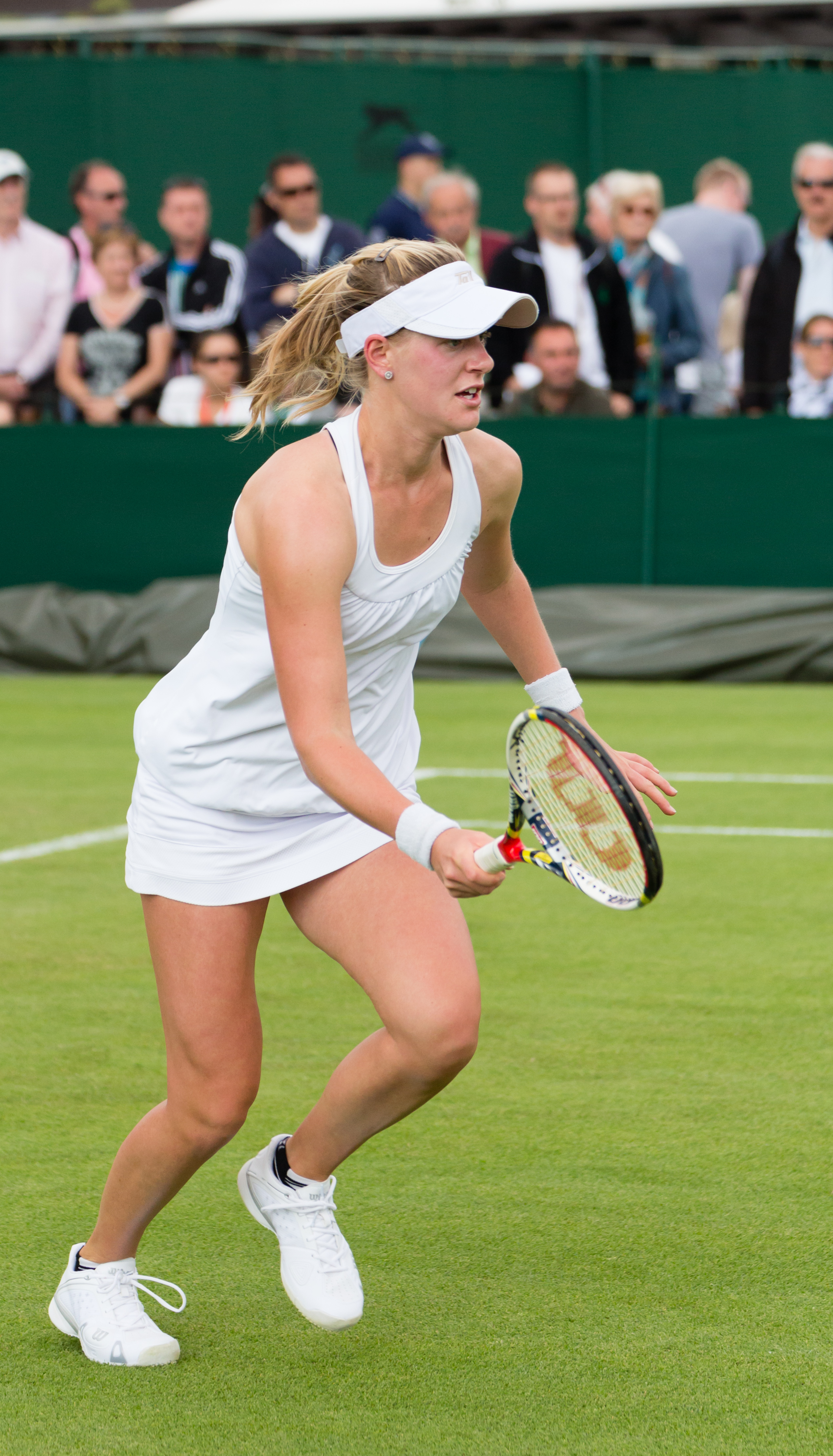 Alison Riske playing in her first round match against Romina Oprandi at the 2013 Wimbledon Championships.